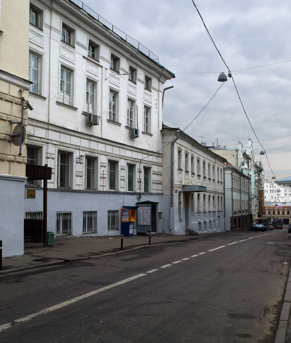 West end of Kuznetsky Most Street, Moscow.